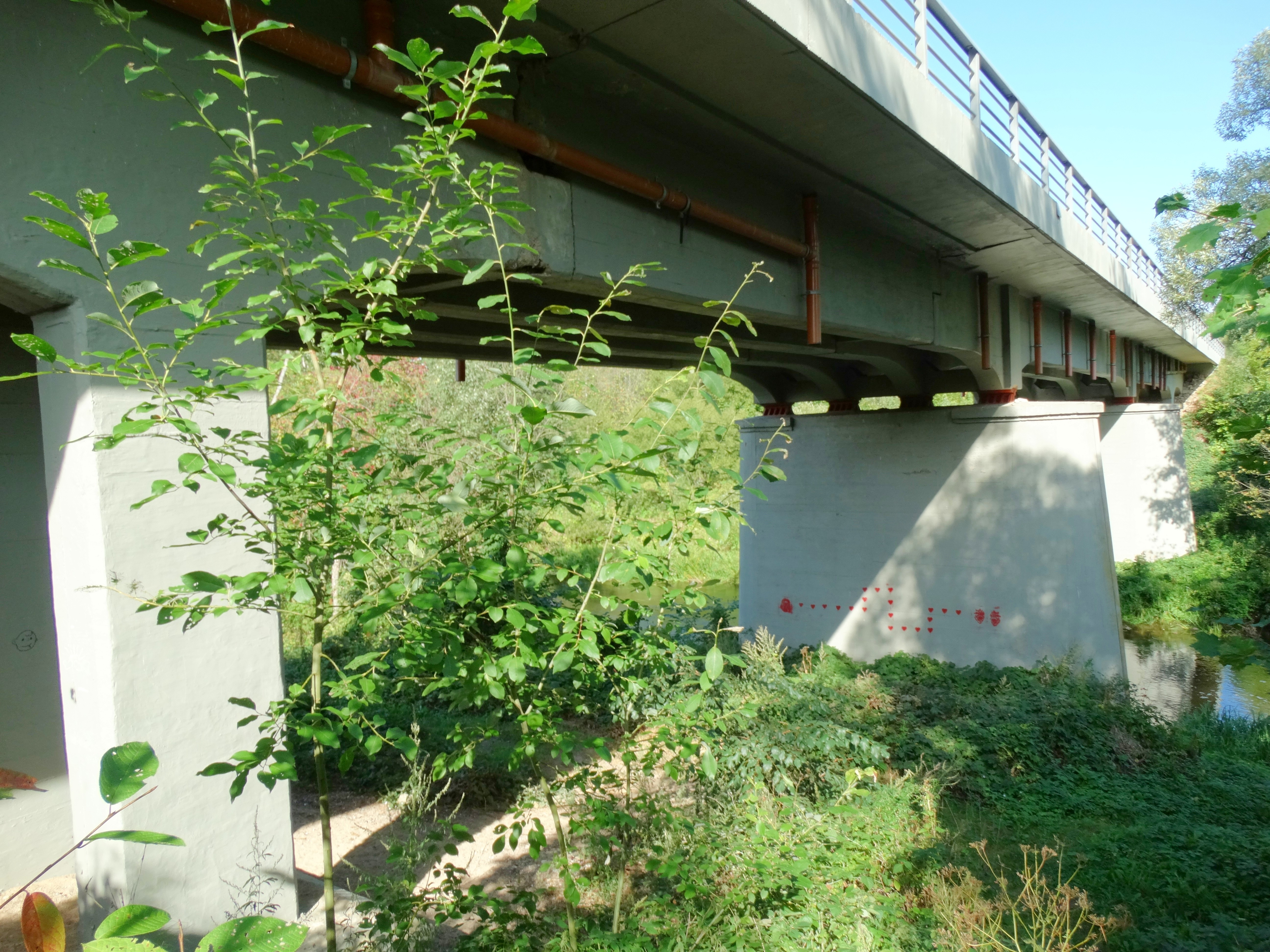 Bridge on Strėva river, Tadarava, Kaišiadorys district, Lithuania